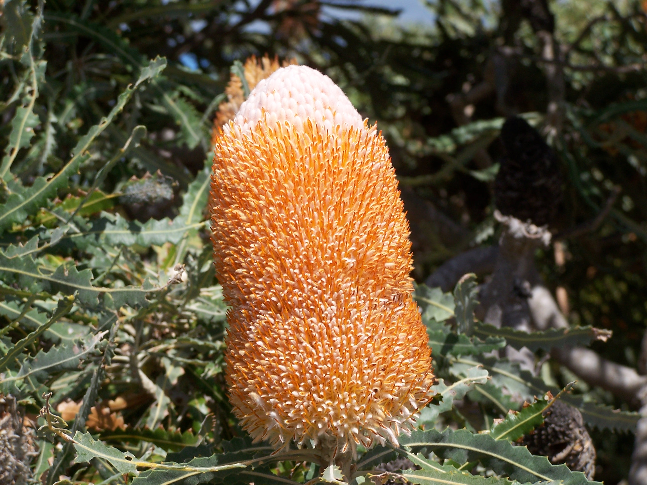 Banksia prionotes taken at Reabold Hill in Bold Park Floreat Western Australia